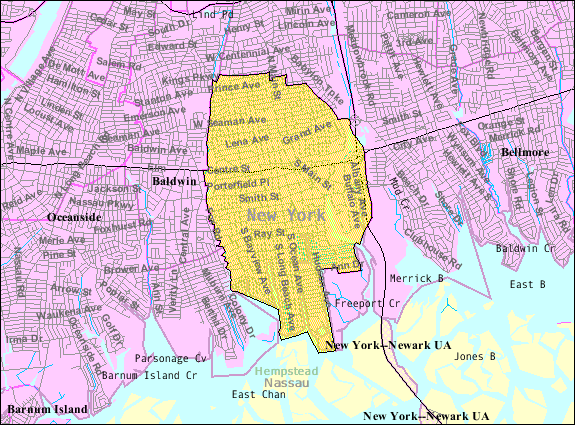 U.S. Census 2000 reference map for Freeport